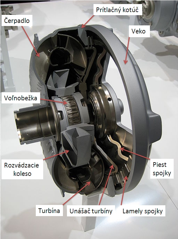 torque converter, cut-away, with slovak description